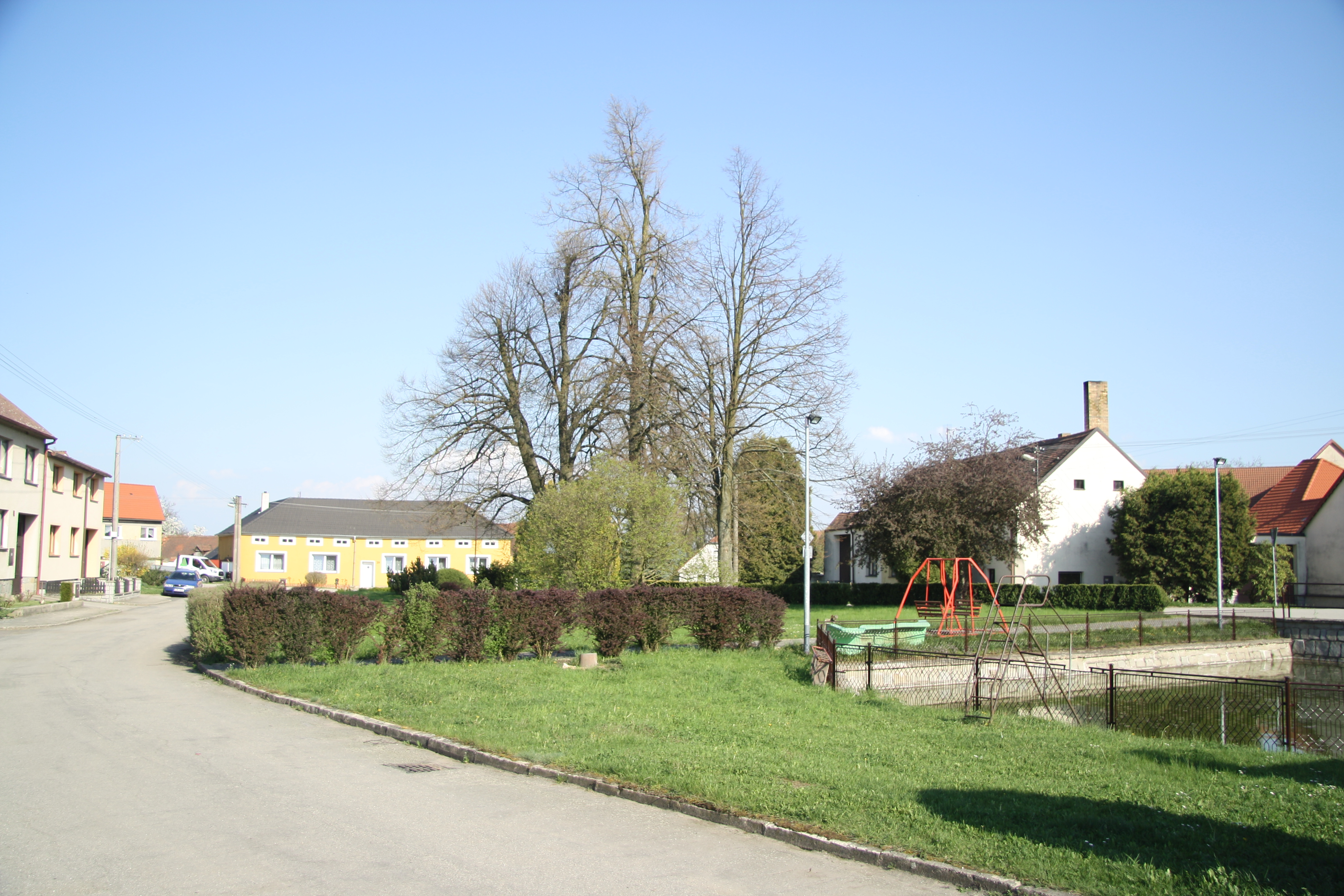 Center of Báňovice, Jindřichův Hradec District.